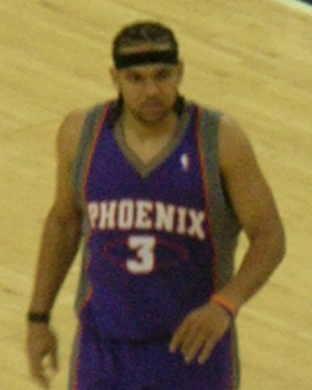 Phoenix Suns forward Jared Dudley during a road game against the Golden State Warriors. The Suns won 154-130.